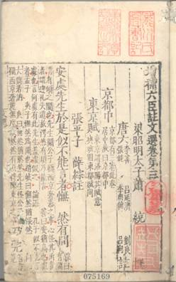 Eastern Metropolis Rhapsody of Zhang Heng